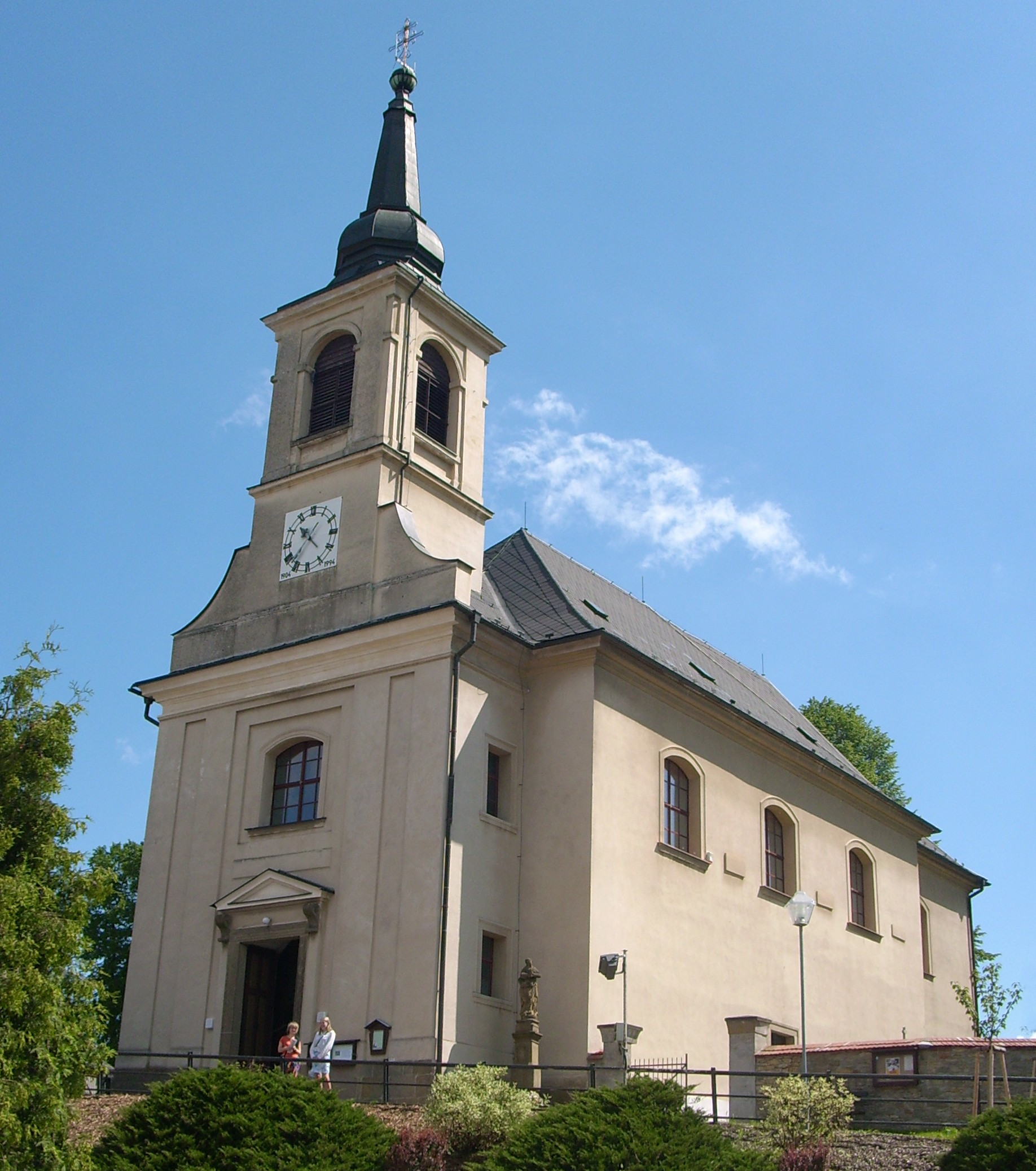 Church of St. Nicholas in Libchavy